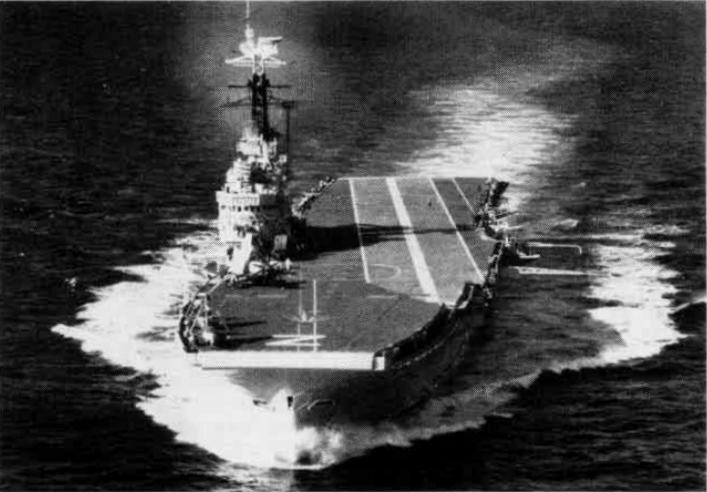 The Royal Navy aircraft carrier HMS Albion (R07) in 1956.